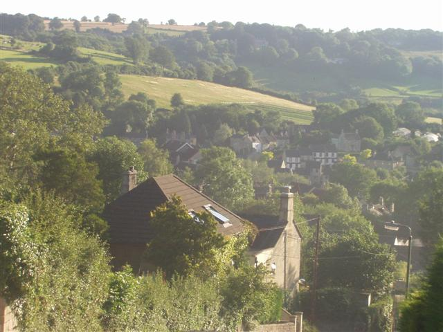 Box, Wiltshire.